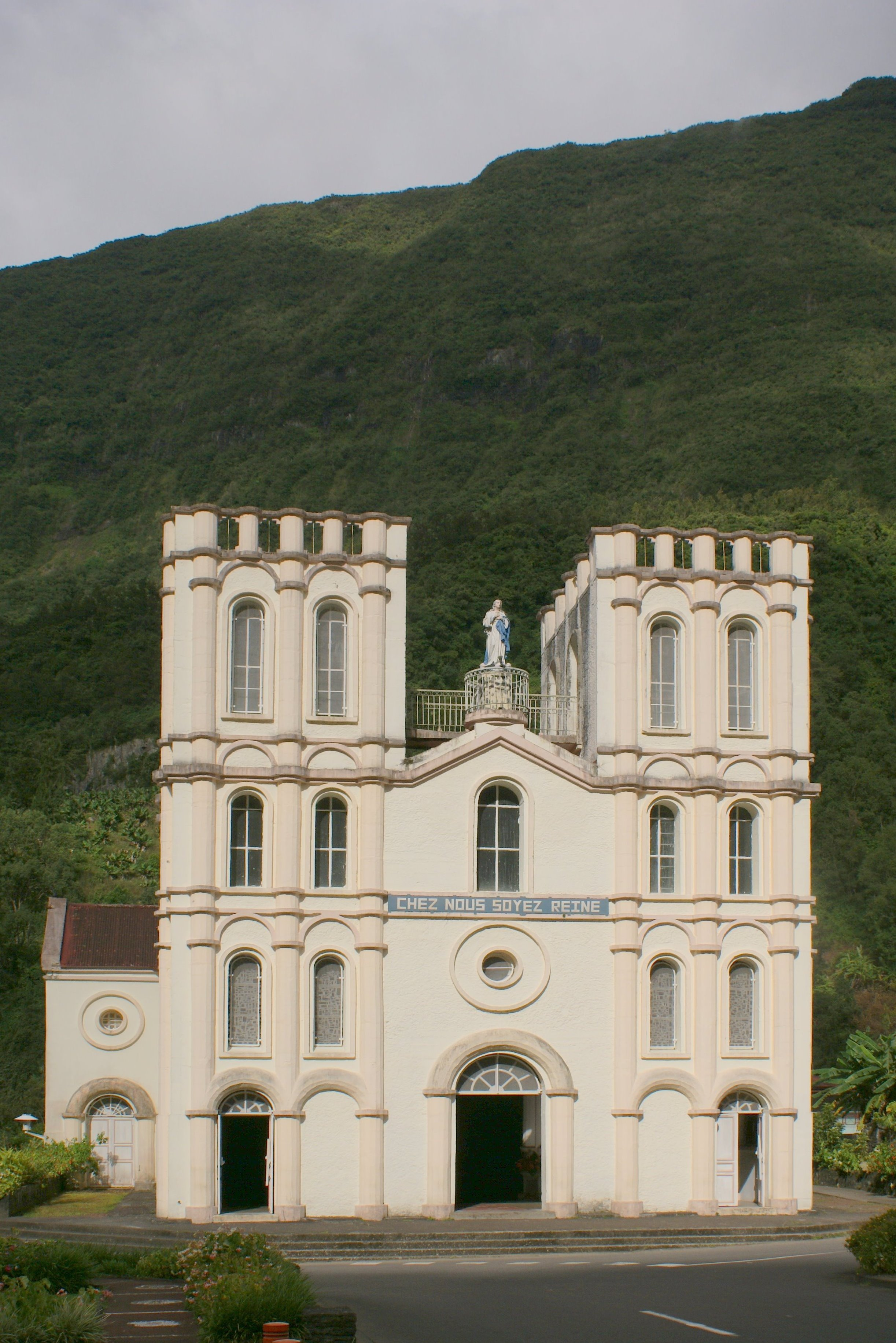 Church of Salazie (Réunion island)